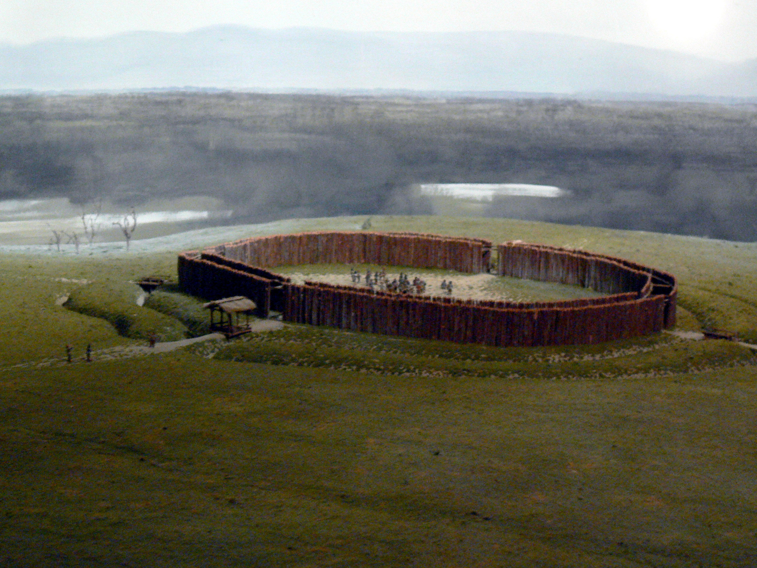 Museum Quintana. Neolithic wooden henge ( 4840-4590 BC ) in Künzing-Unternberg ( reconstruction )